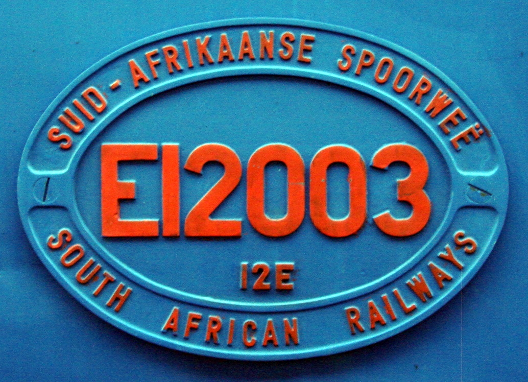 SAR Class 12E 12-003 number plateLocation: Koedoespoort, Pretoria, Gauteng